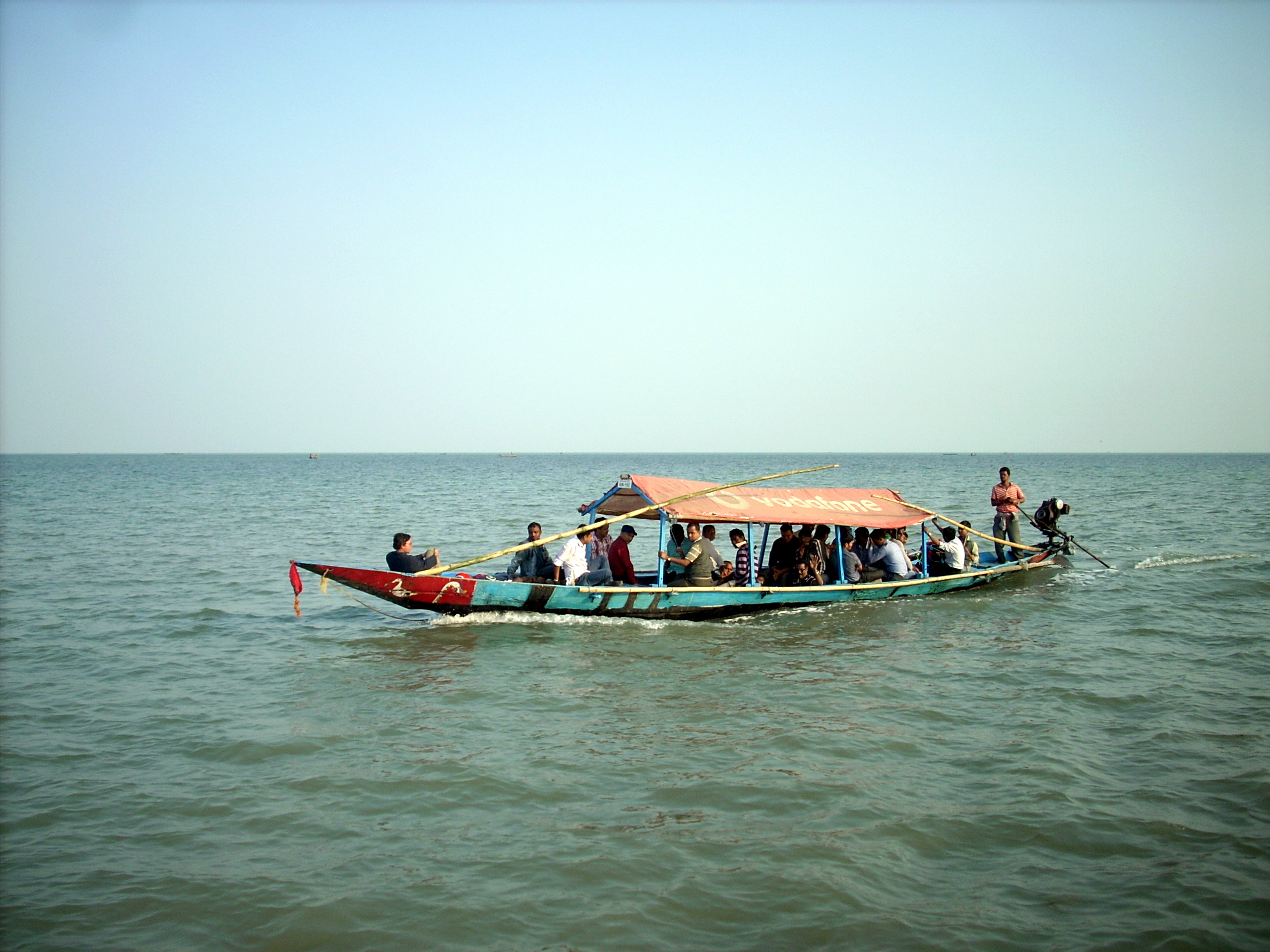 Boat ride on Chilika Lake, Balugaon, Odisha, India